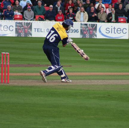 Kadeer Ali hitting a Somerset CCC bowler for six at Taunton, June 27 2007